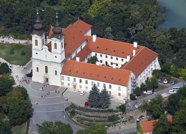 Tihany, Hungary, veszprém county, aerial photography